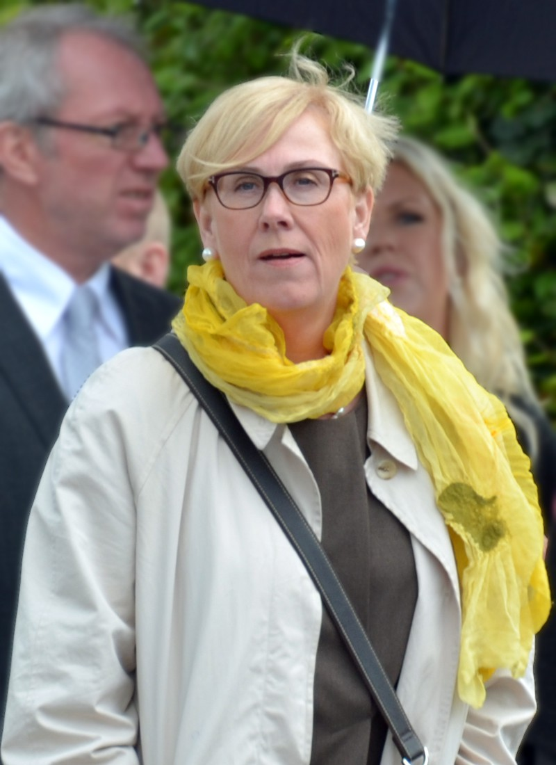 Åsa-Britt Karlsson, swedish secretary of state and director-general for Swedish Geotechnical Institute.